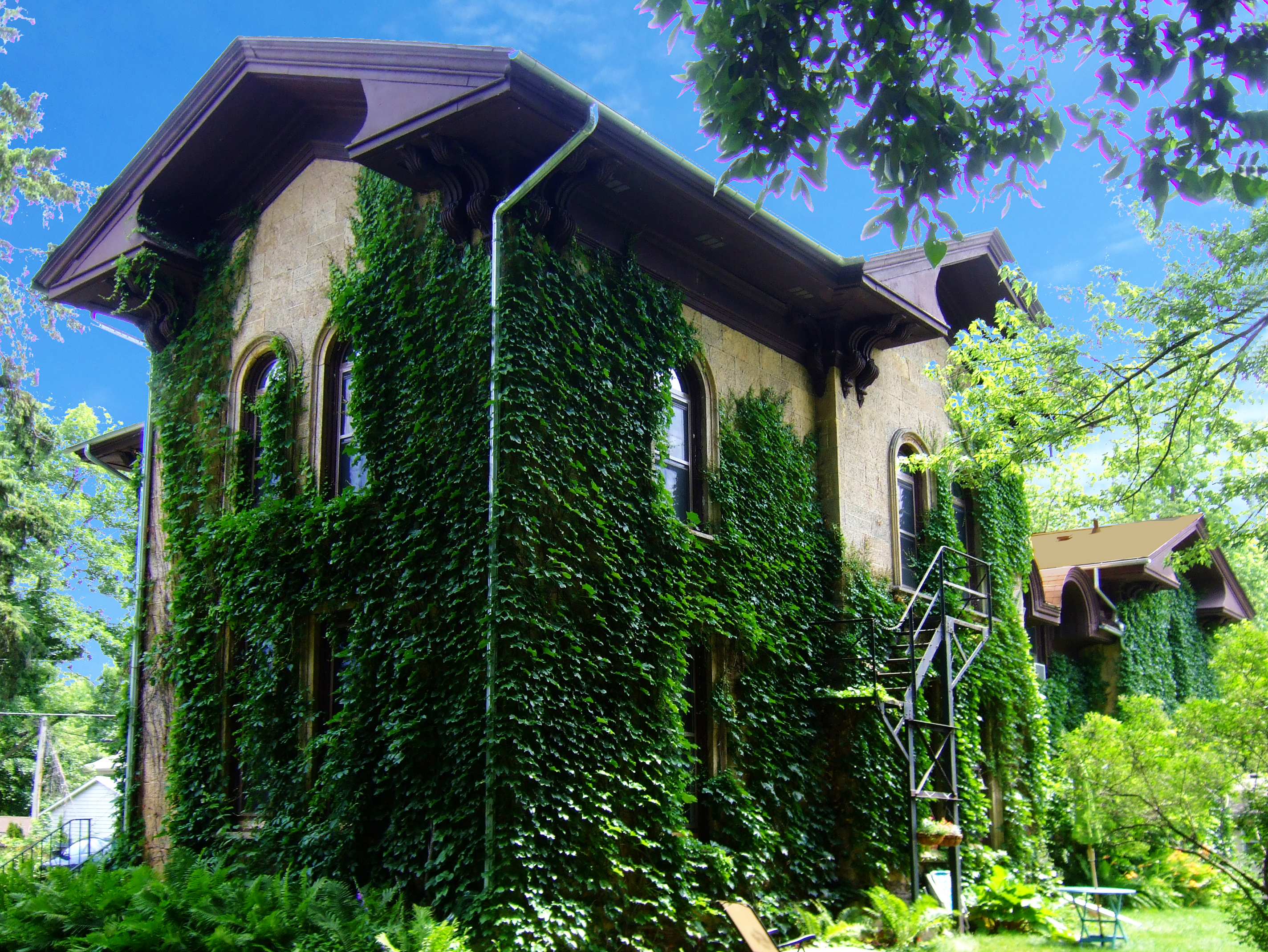 The Simeon Mills House (1863) known as "Elmside" at 2709 Sommers Avenue in Madison, Wisconsin, was added to the National Register of Historic Places in 1987. This elegant Italian villa style house was constructed of native sandstone on the 191-acre country estate of Simeon and Maria Mills. An early pioneer from Ohio, Mills erected Madison's first store and was a banker, real estate developer, and respected civic leader. As a founder of Madison's first insurance company, the first newspaper, and two major railroads, he was instrumental in the growth and prosperity of Madison. He also helped establish the University of Wisconsin.